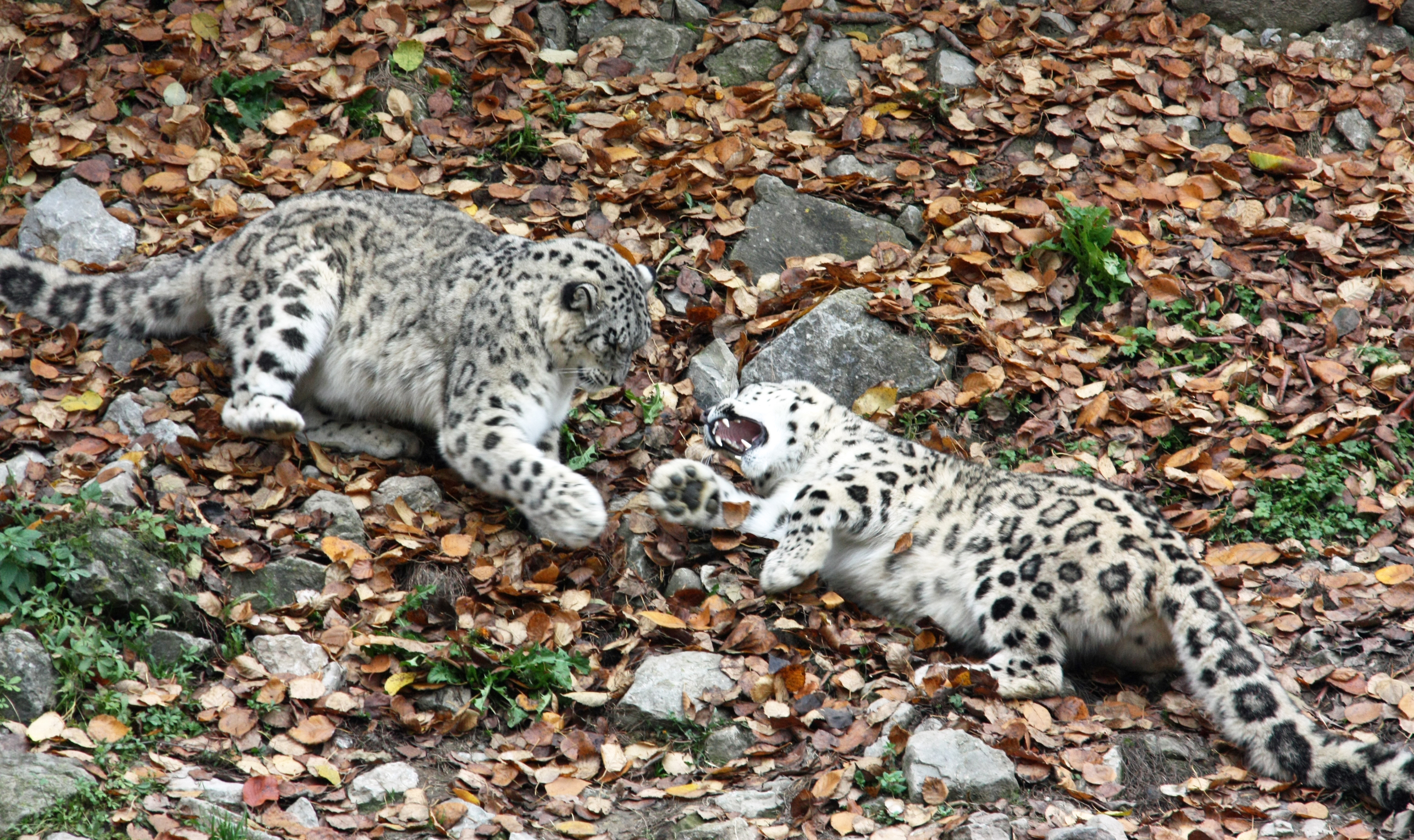 Snow leopards Dshamilja (mother) and Kailash (daughter), Zurich Zoo